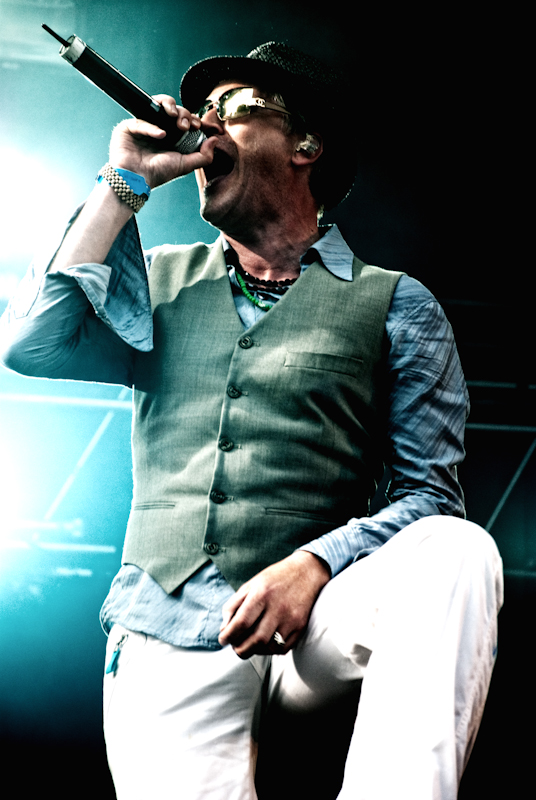 Morten Abel performing with The September When at the Slottsfjell festival 2009.